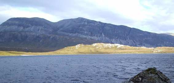 Loch Stack and Arkle